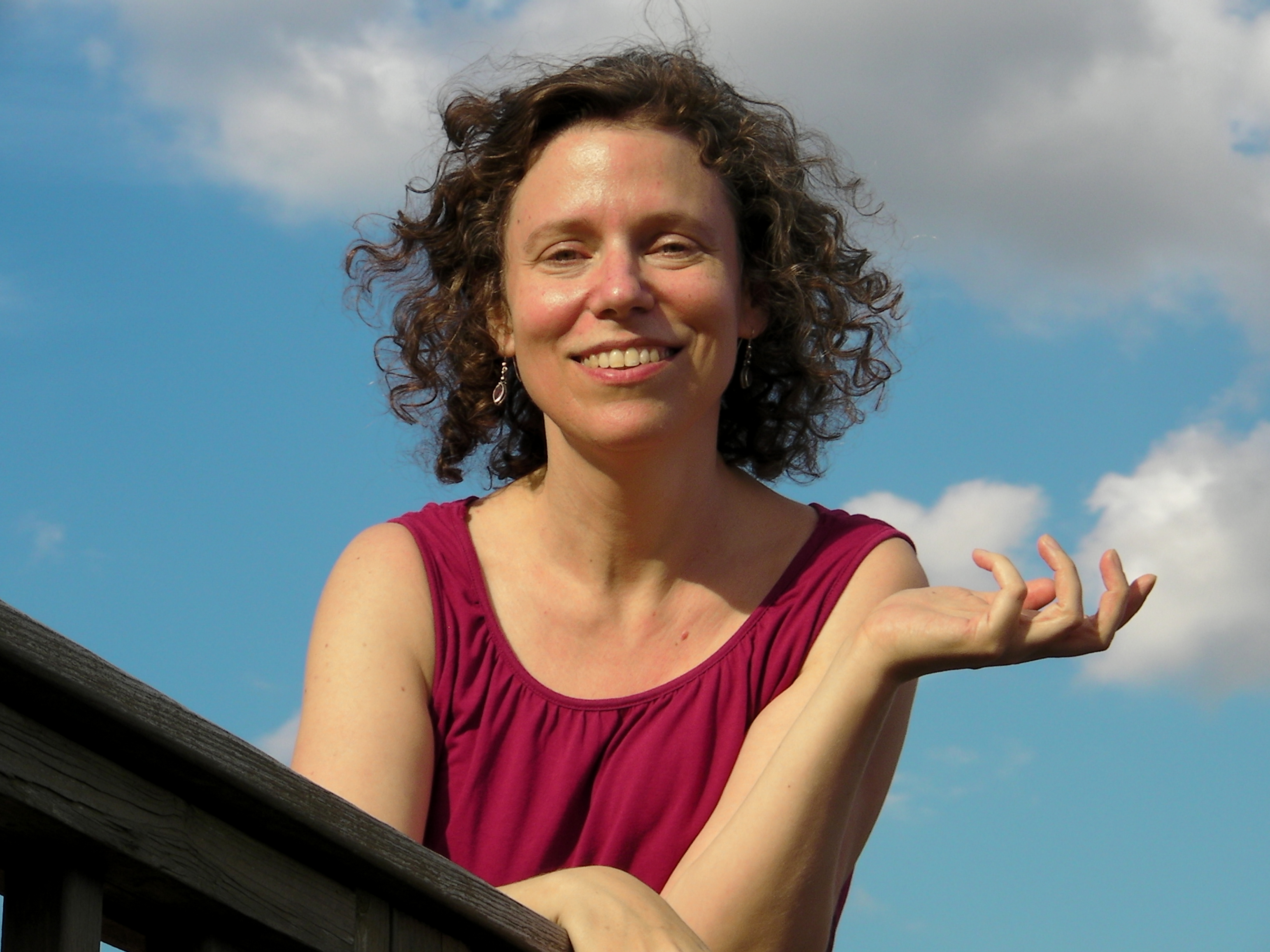 Nina Paley in Long Beach, NY, July 4 2009